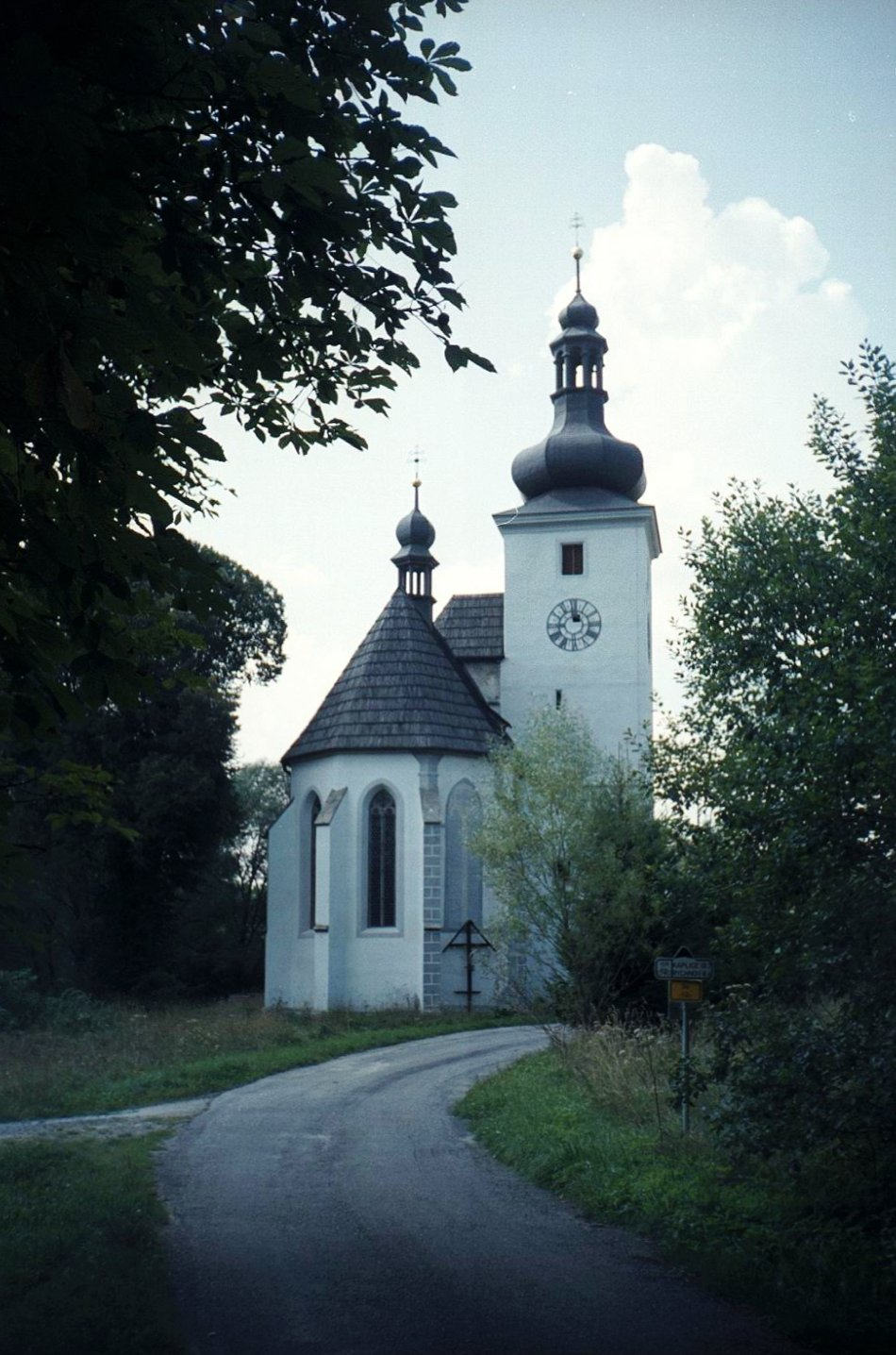 Church of Nativity of Virgin Mary in Cetviny, nowadays a part of Dolní Dvořiště municipality, Český Krumlov District, Czech Republic